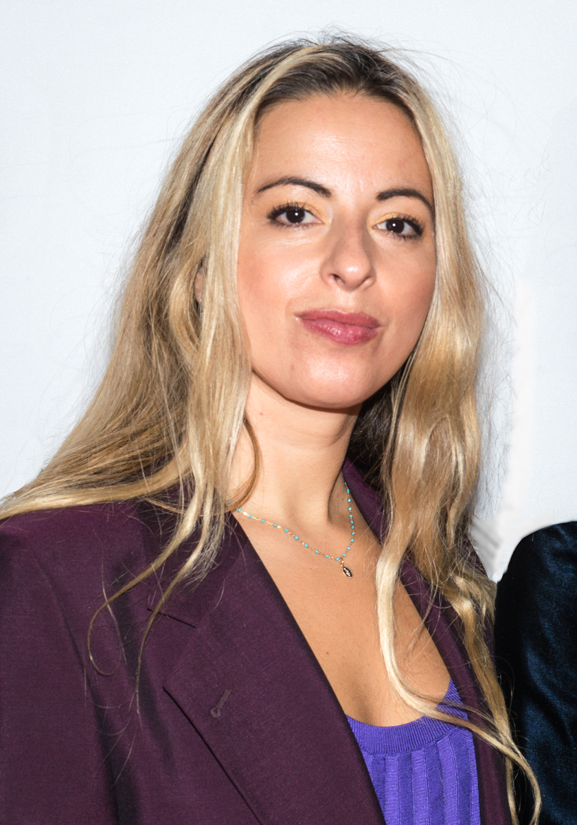 Crystal Moselle before the award ceremony at the Stockholm International Film Festival on November 16, 2018.